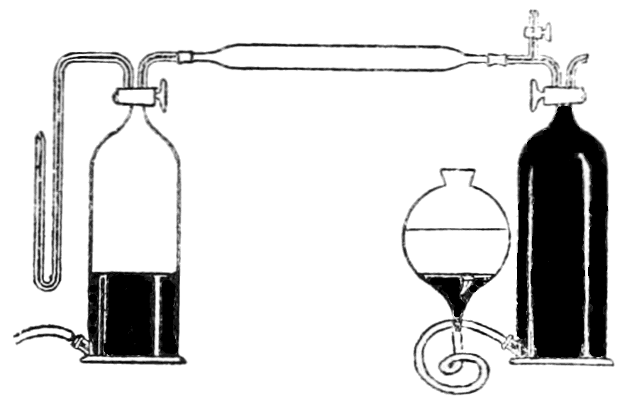 Nitrogen separation from the atmosphere